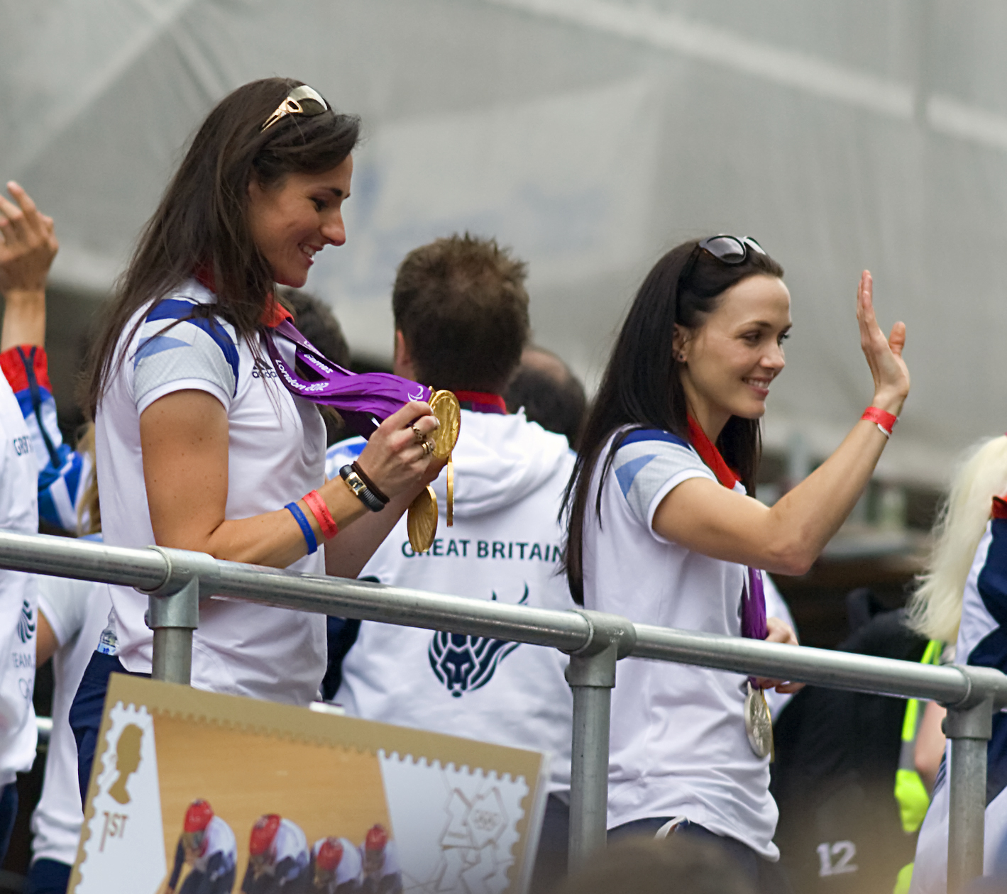 London 2012 Olympic & Paralympic Games Victory Parade, 10th September